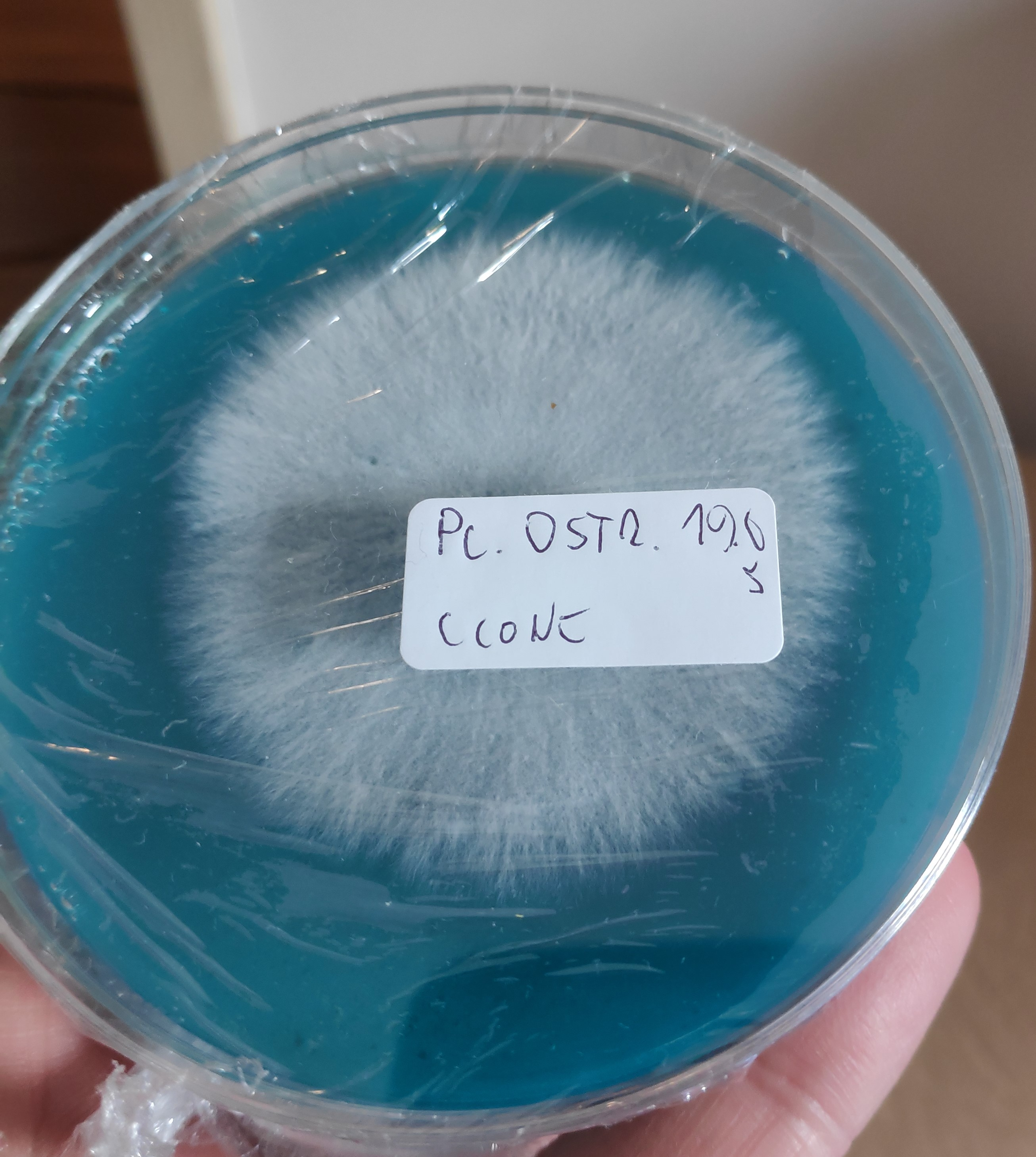 Mycelium of Pleurotus ostreatus, cloned from mature fruitbody, growing on yeast malt extract agar colored with Brilliant Blue FCF.